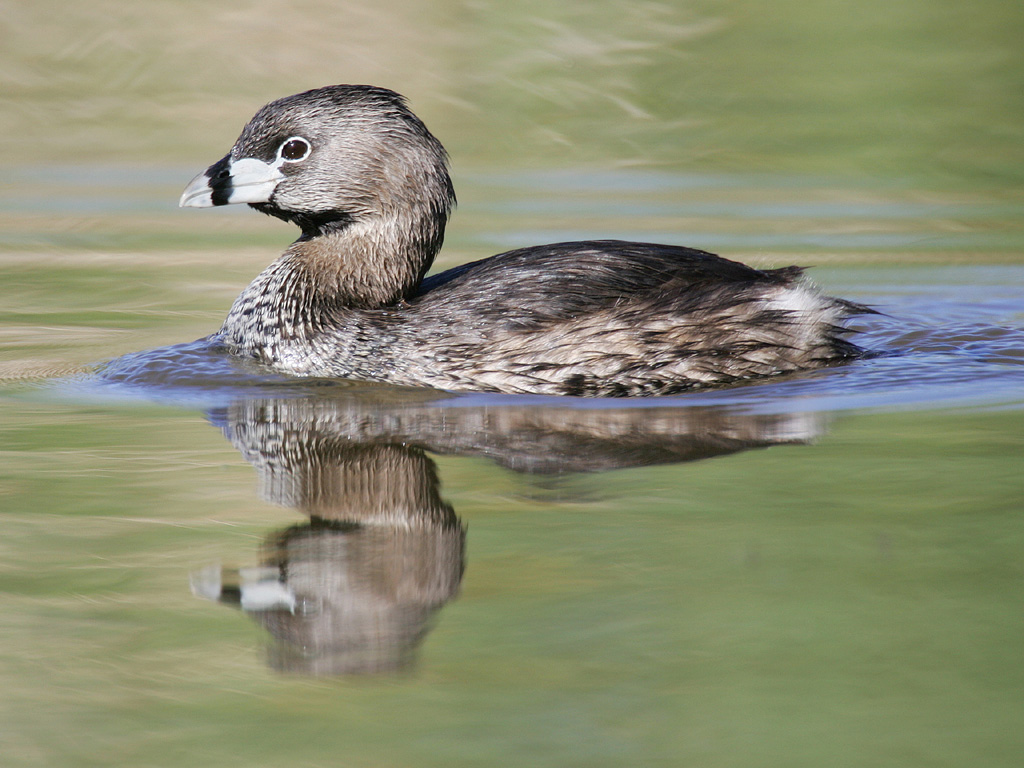 Pied-billed Grebe (Podilymbus podiceps), Lake Patagonia (Arizona, USA), 2005; de: Bindentaucher